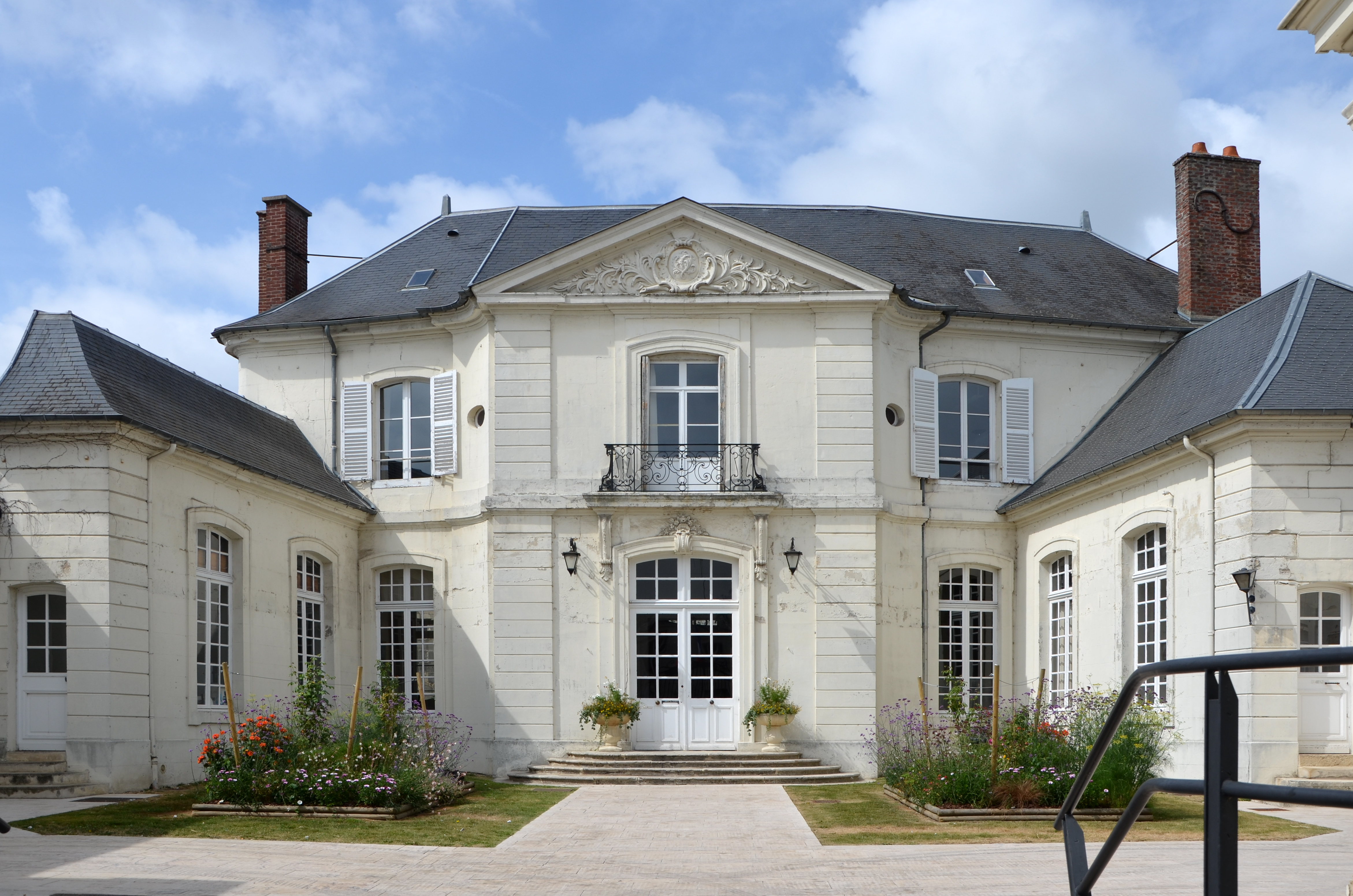 Town hall of Villers-Cotterêts, Aisne, Picardie, France .